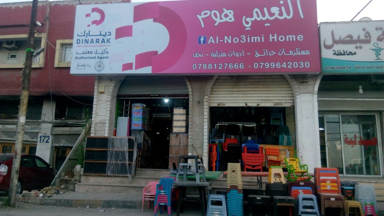 Certified agent example